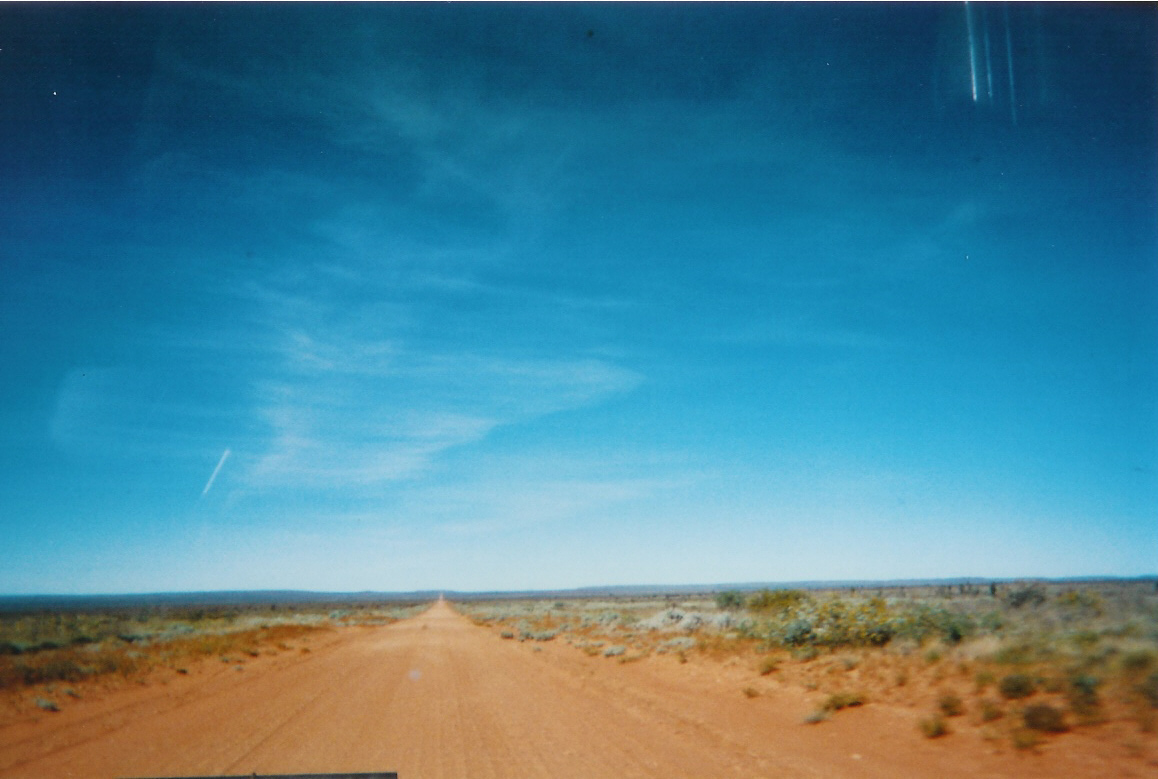 Taken from a moving 4x4 while driving toward Alice Springs 23 June 2004